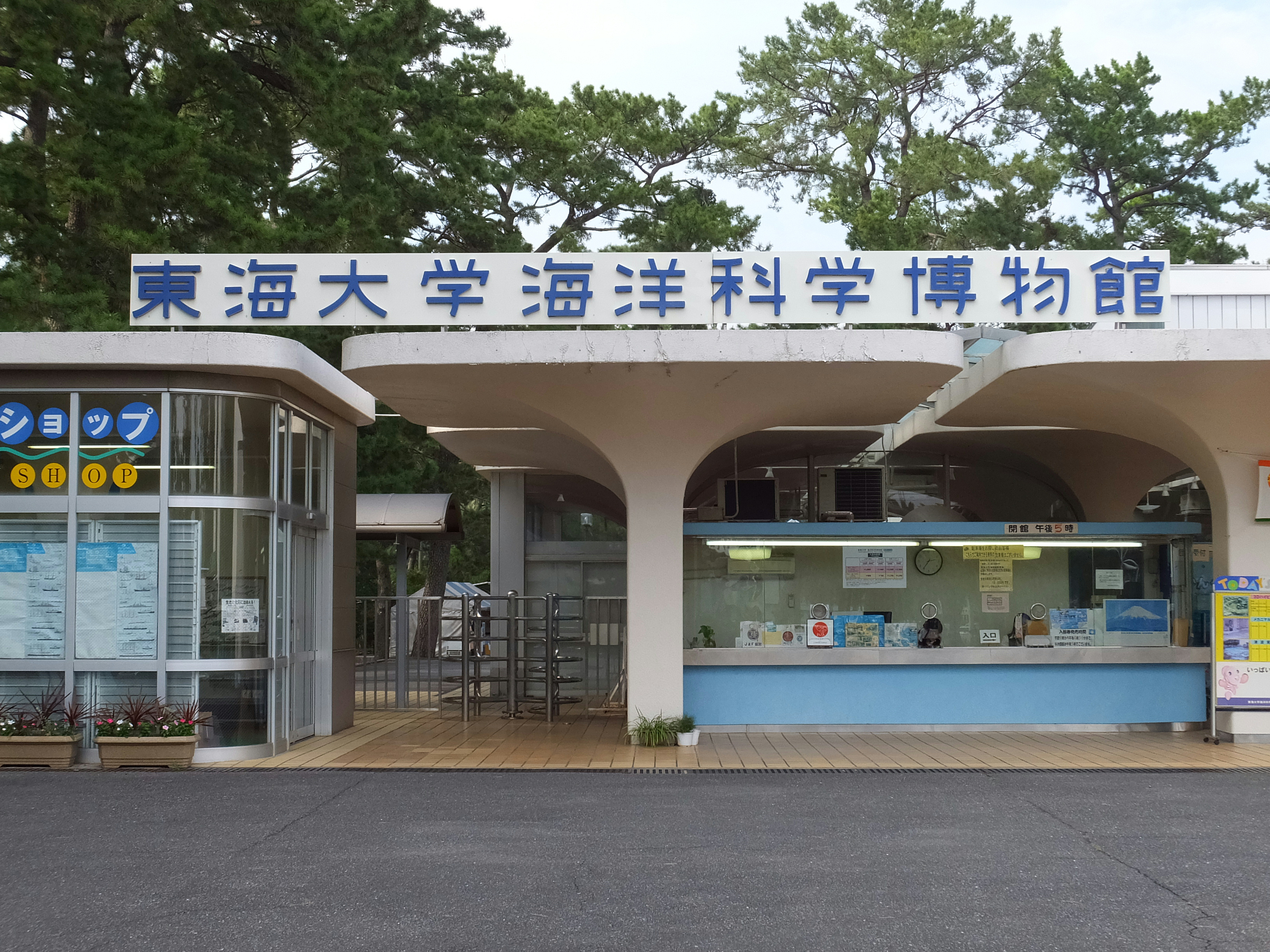 Tokai University, Tokai Univ. Marine Science Museum.